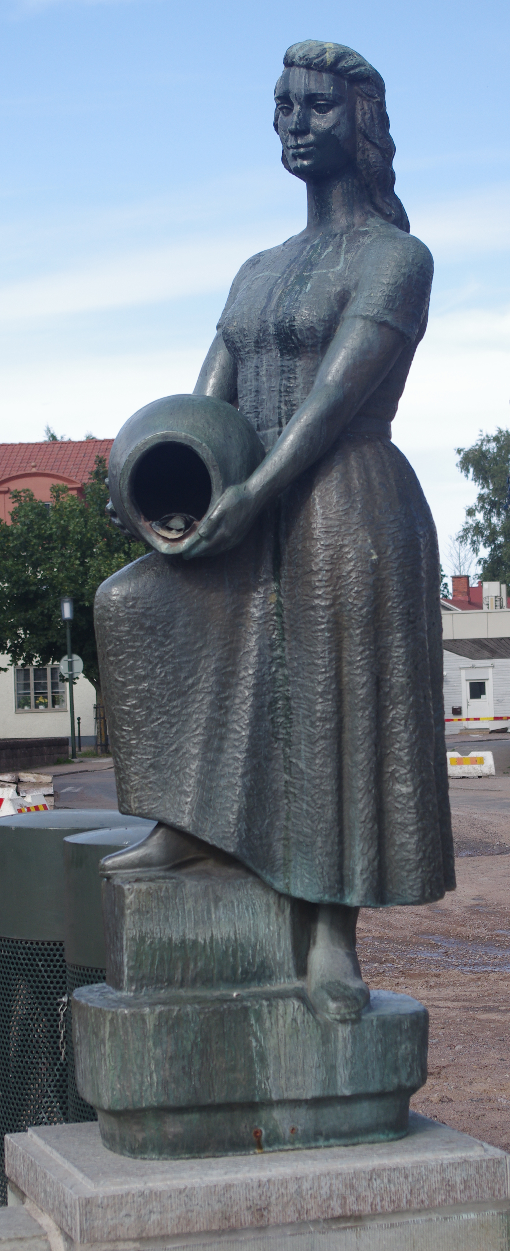 Kvinnan vid brunnen (swedish:The woman by the well) from 1963 by David Wretling placed on Stora torget (Grand Square) in Hjo in Västergötland, Västra Götaland county, Sweden. The statue is placed where once a well with water from near by Hökensås was located.